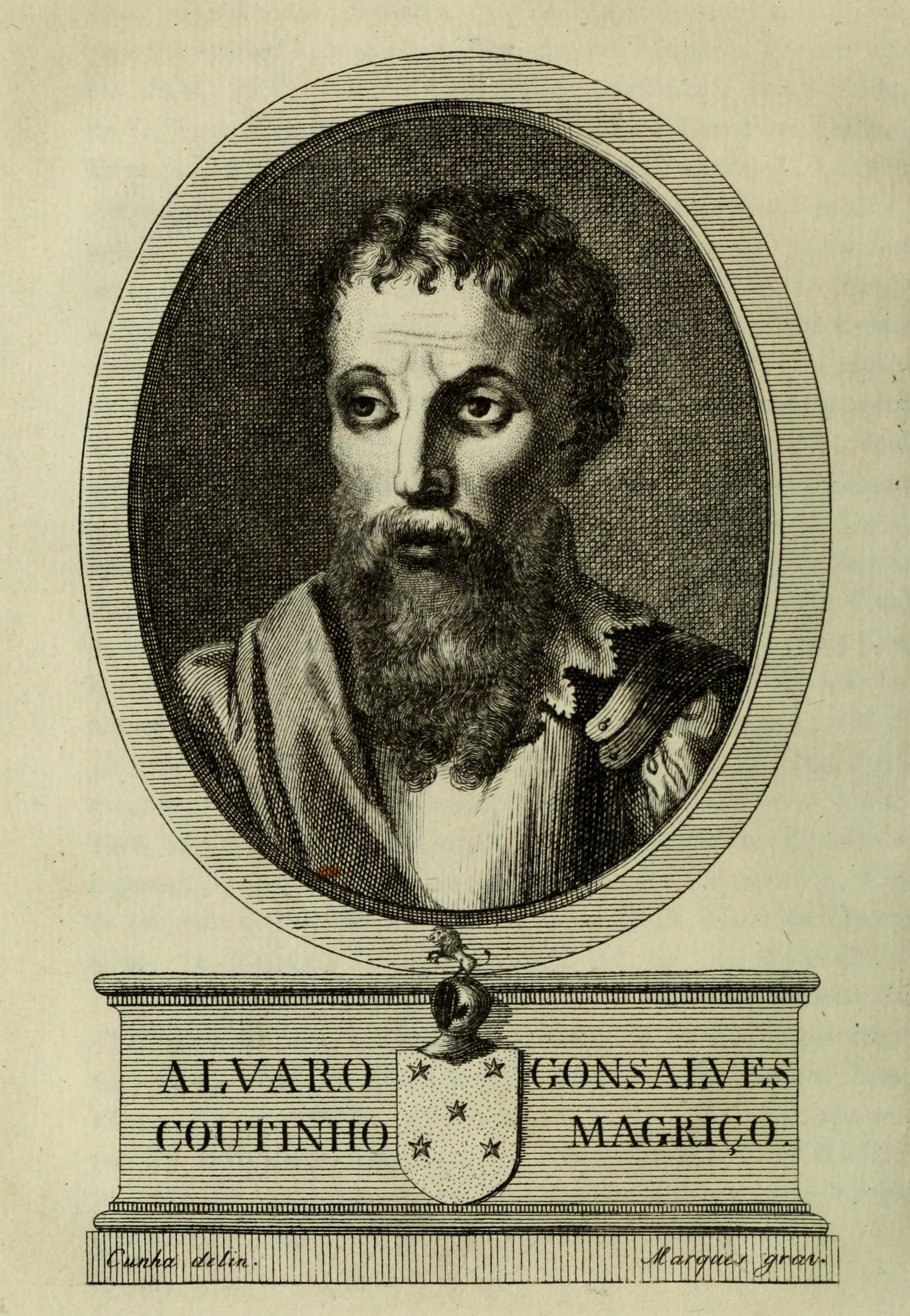 Álvaro Gonçalves Coutinho (c. 1383-c. 1445), Portuguese knight and one of the Twelve of England.